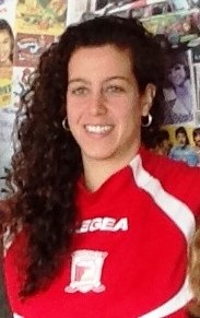 Close-up of María Díez Busqué